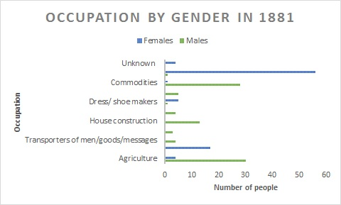 Chart showing the occupation of Fristons population by gender in 1881.